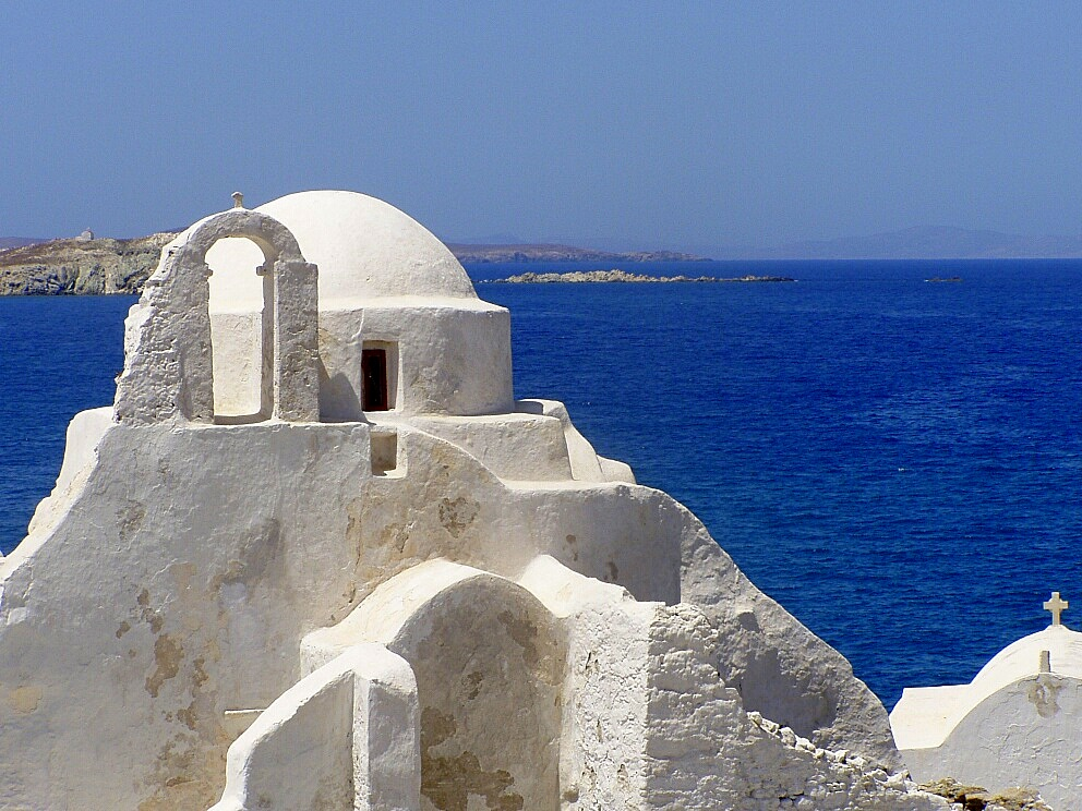 Church of Paraportiani, Mykonos